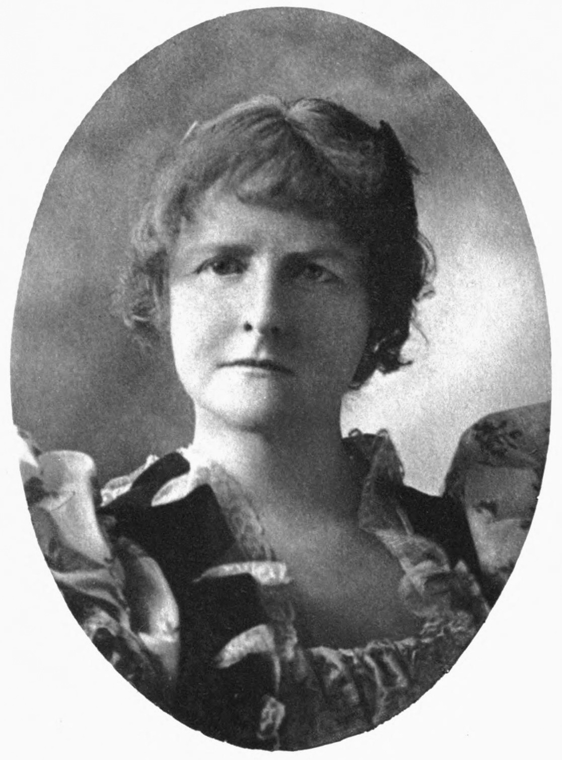 American writer Mary E. Wilkins Freeman.